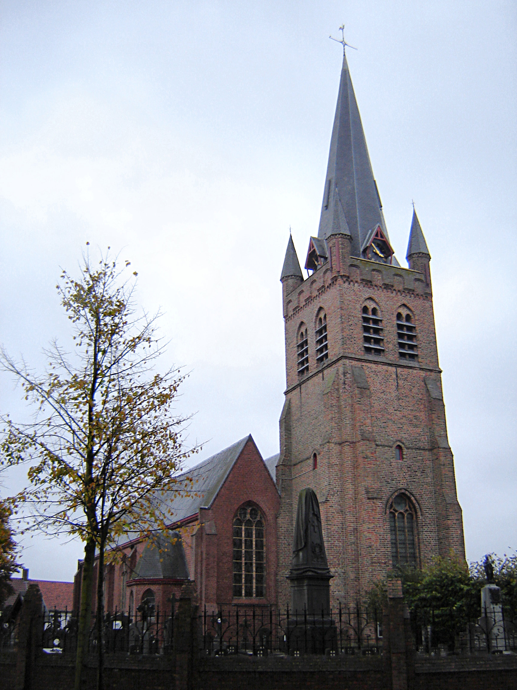 Church of Saint Maurice in Varsenare. Varsenare, Jabbeke, West Flanders, Belgium